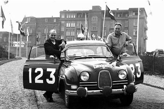 The rally driver Erik Carlsson with his Saab before the 1962 Tulip Rally.